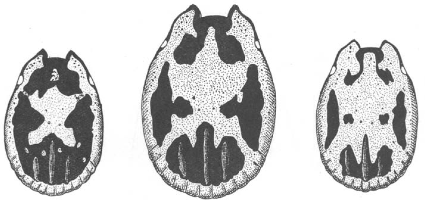 "Rhipicephalus pulchellus, males ; ornamentation of normal form (central figure) and the two extreme forms, the three scuta being drawn to the same scale. N. C. del."